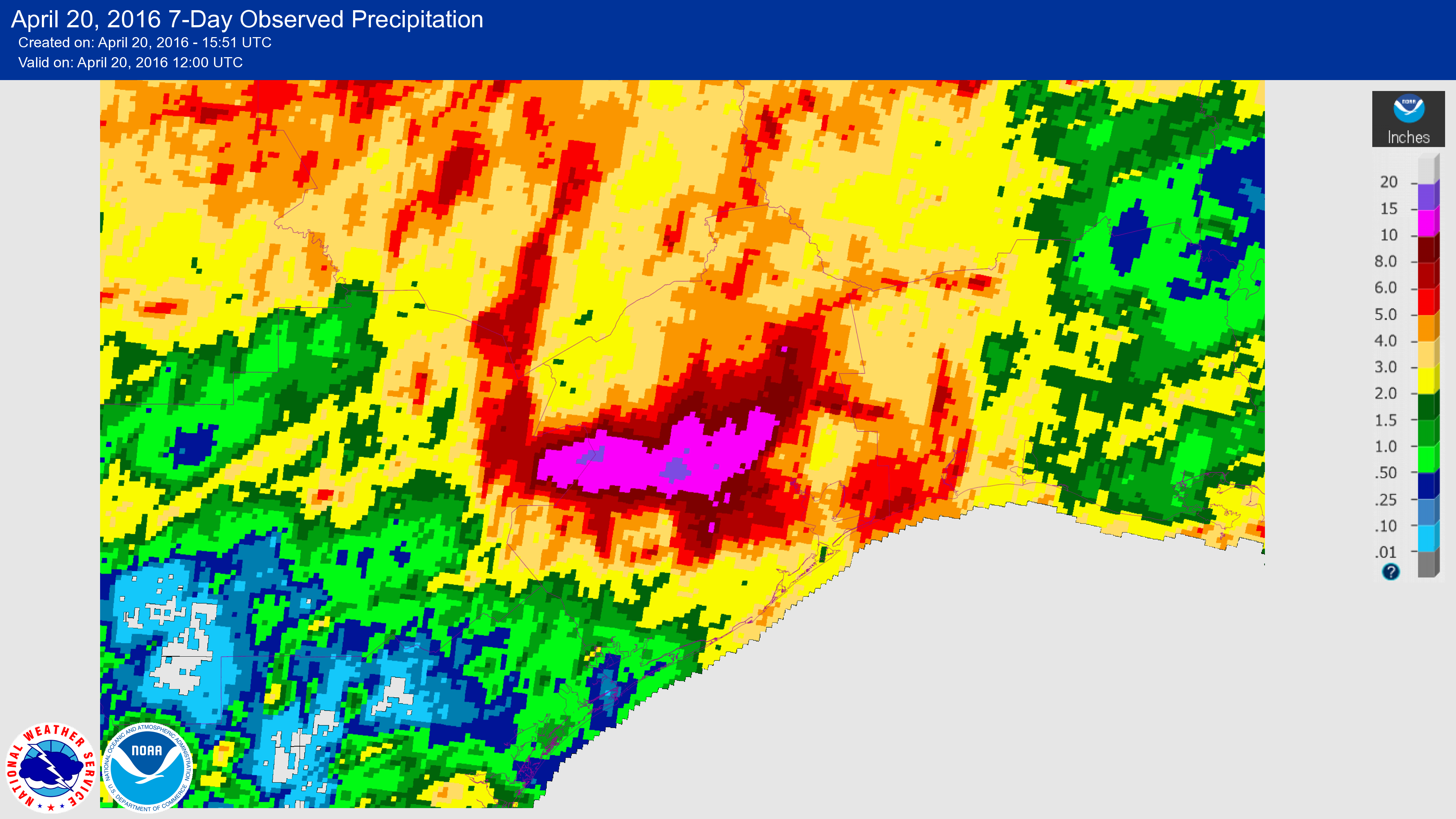 This graphic shows the rainfall between April 13 and 20, 2016, in and around Houston, Texas